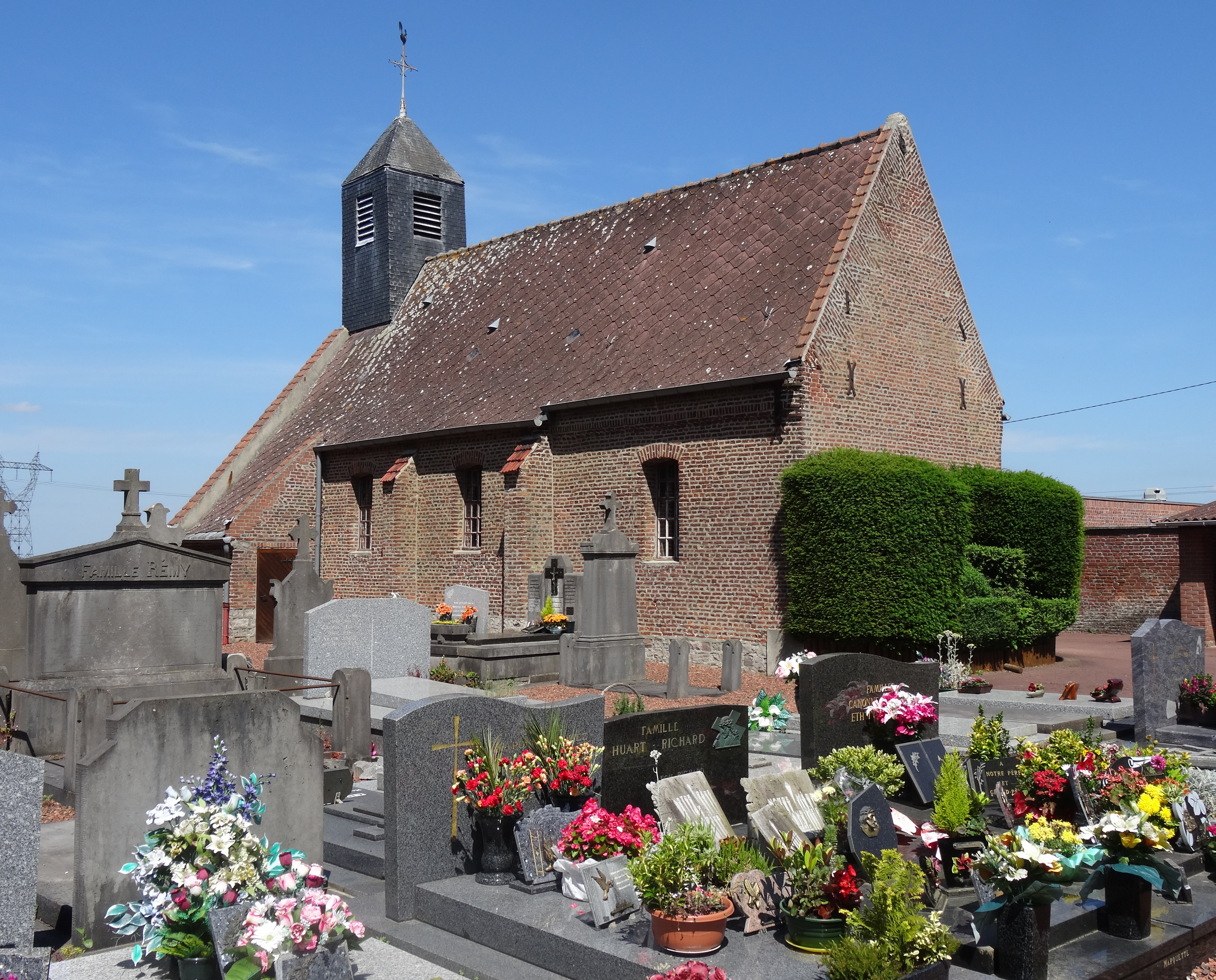 Depicted place: Q38389484